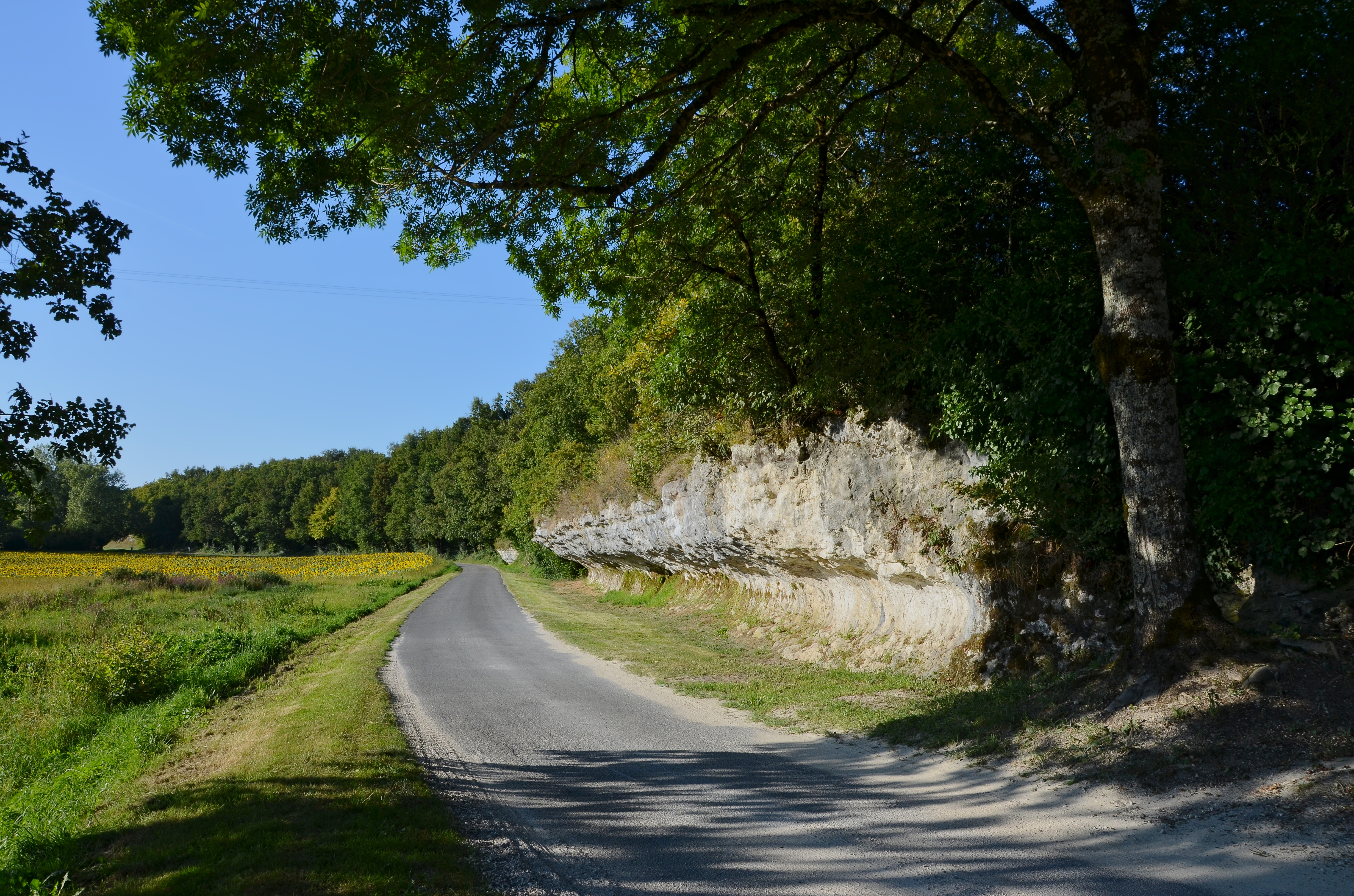 Limestone Cretaceous cornices (Coniacian type), valley of the river Voultron; Blanzaguet-Saint-Cybard, Charente, France.